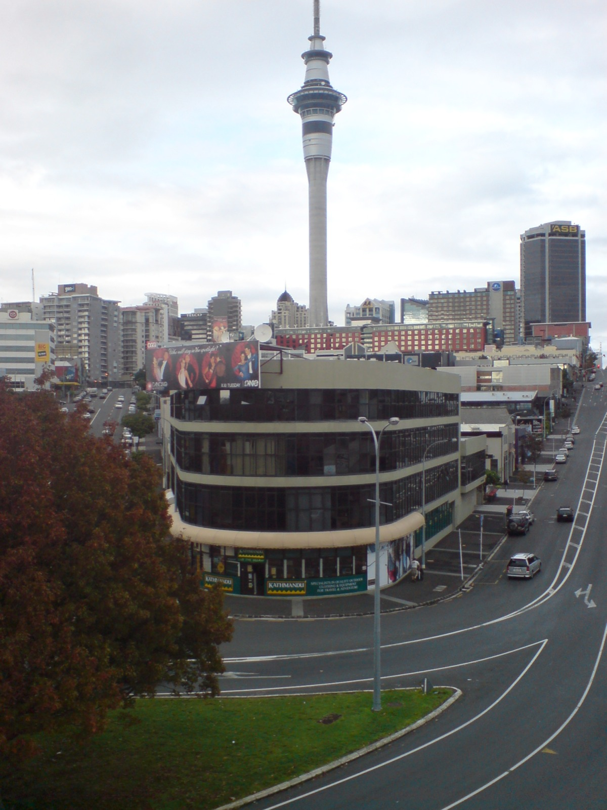 One of the two Kathmandu flag ship stores. Seen from the top of the Victoria Park Market carpark building looking east towards Auckland CBD and the Sky Tower, Auckland City, New Zealand.